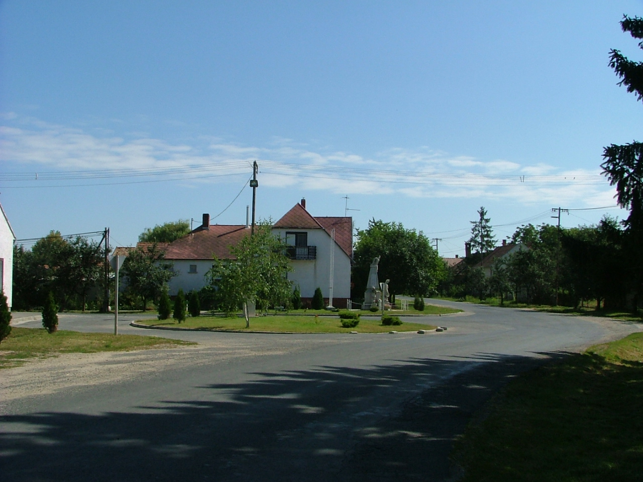 Main square of Kisbabot